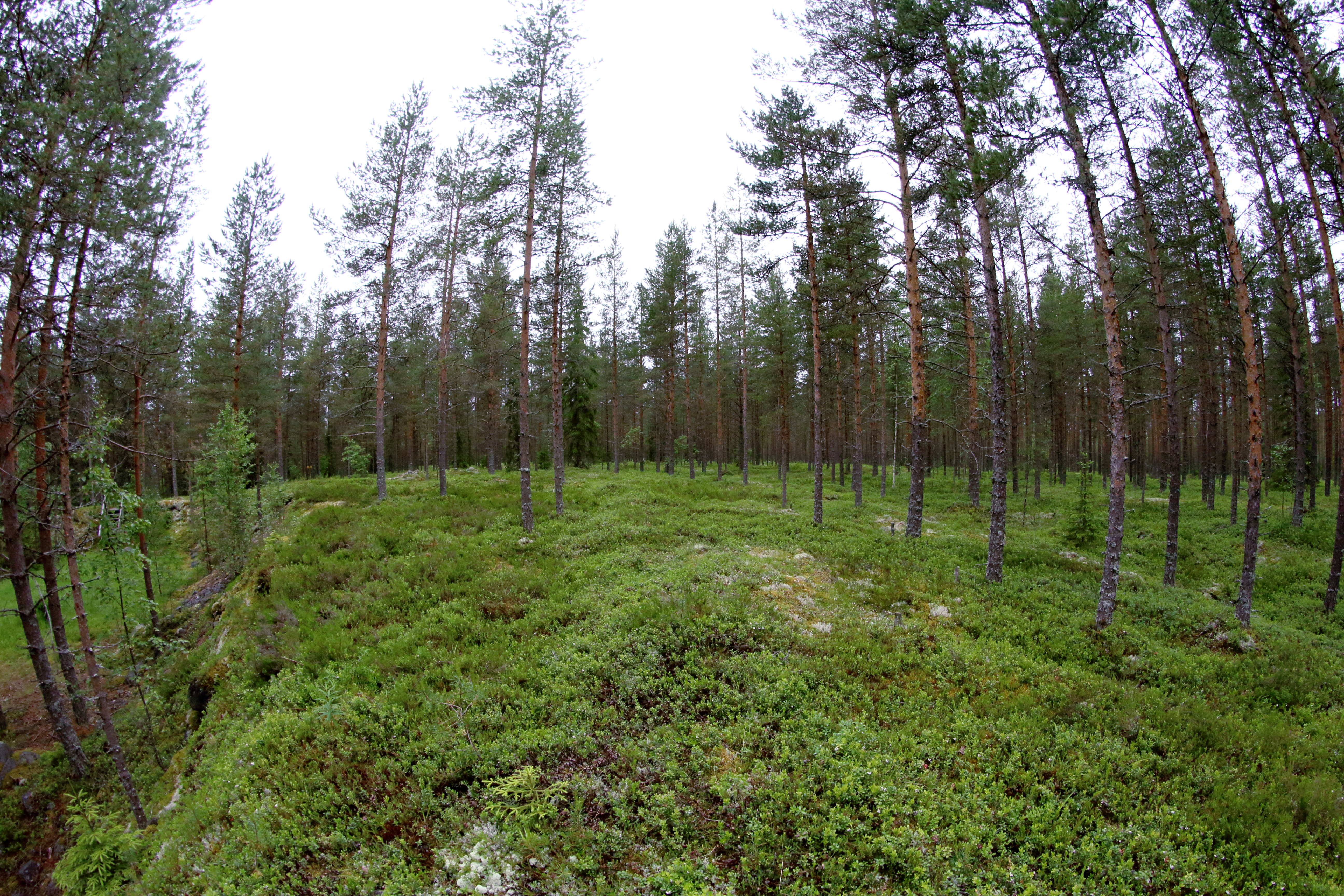 Remains of a wall of giant's church at the Kettukangas archeological site in Raahe, Finland. Photo is taken along the remaining long wall of the church. Wall is visible only as light elevation of the ground. On the left there is a sand bit, which destroyed large part of the church.